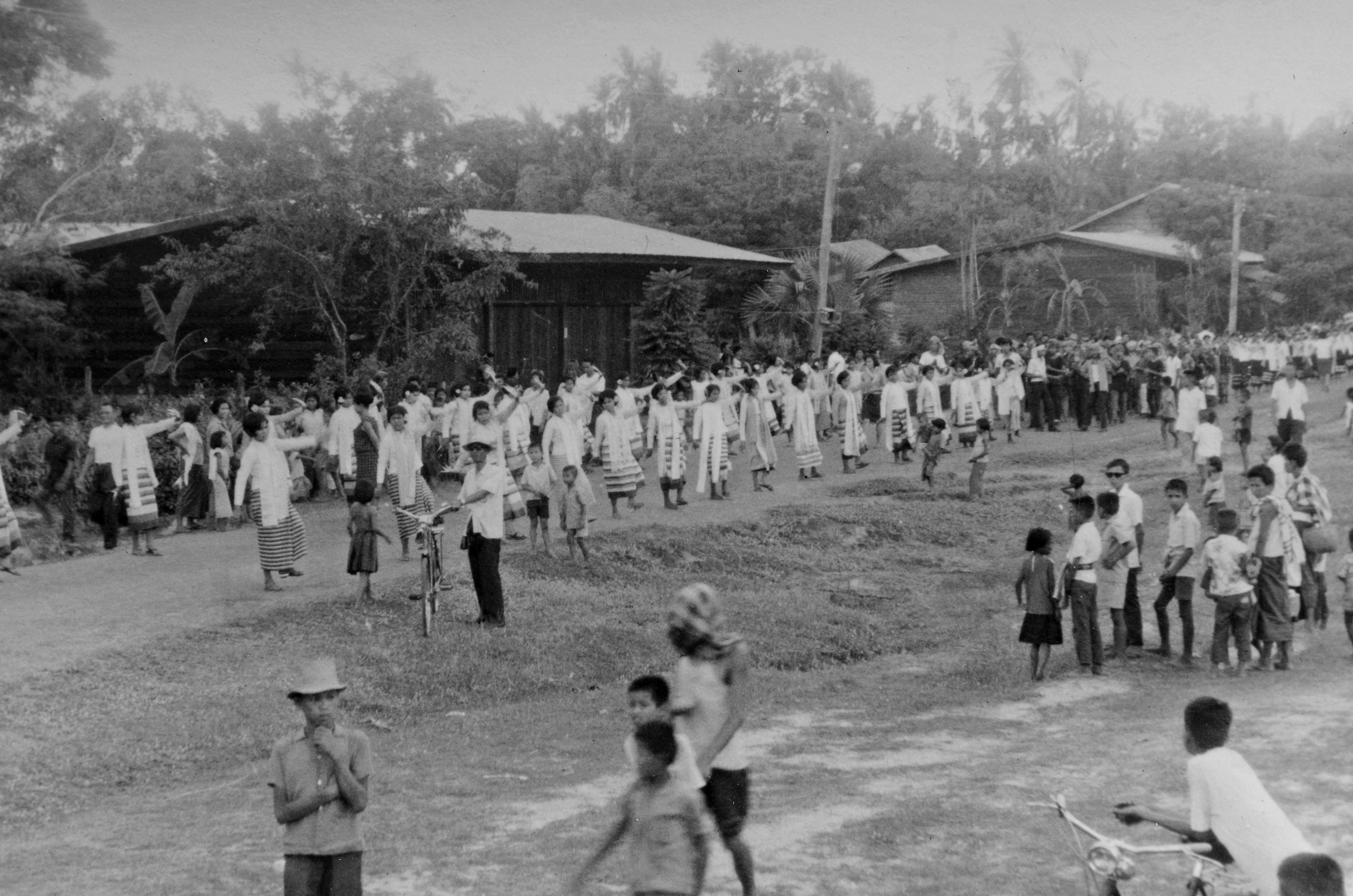 Bungfai Festival Photo in Suwannaphume , Roi ET